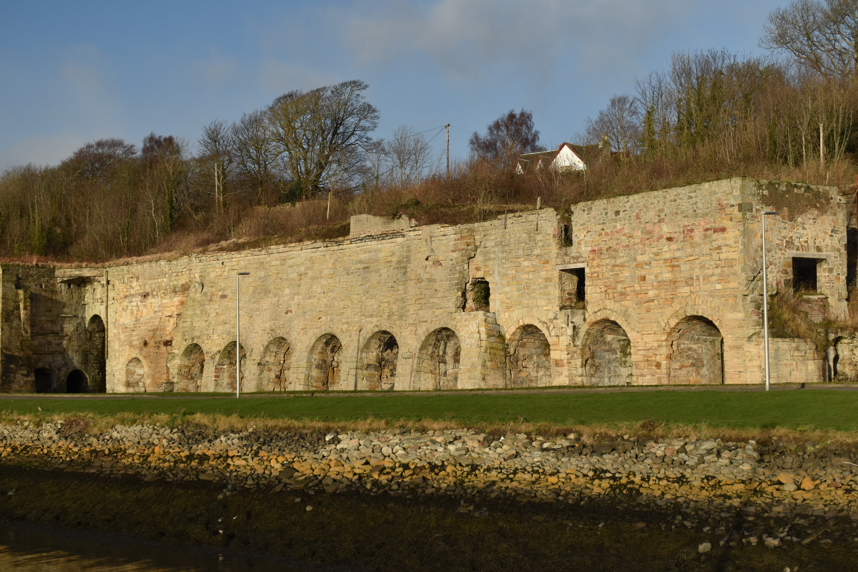 A general view looking North East of the bank of Lime Kilns facing the Harbour in Charlestown, Fife (NB Lime Kilns 12, 13 & 14 to the West do not show)